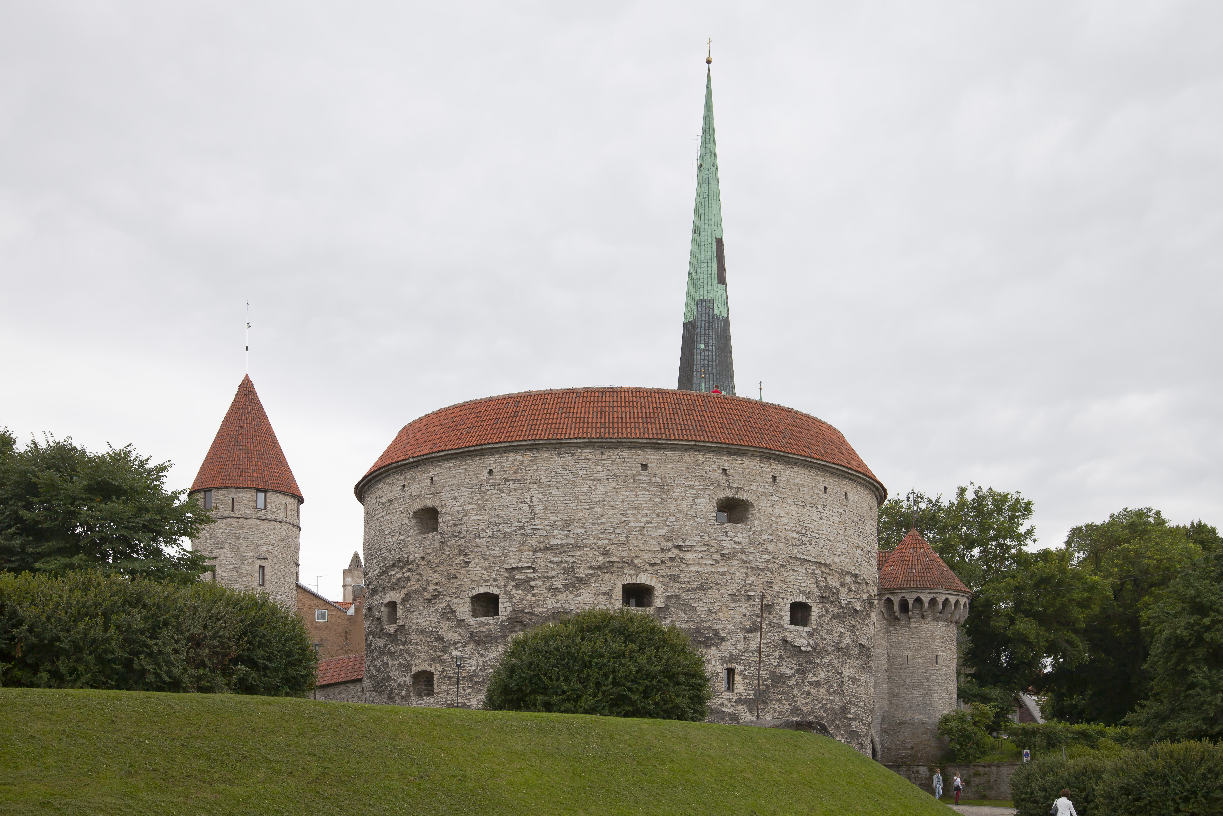 Fat Margaret, Tallinn, Estonia